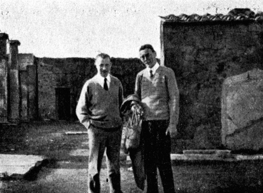 Hans Arp and Hugo Ball in Pompeii.